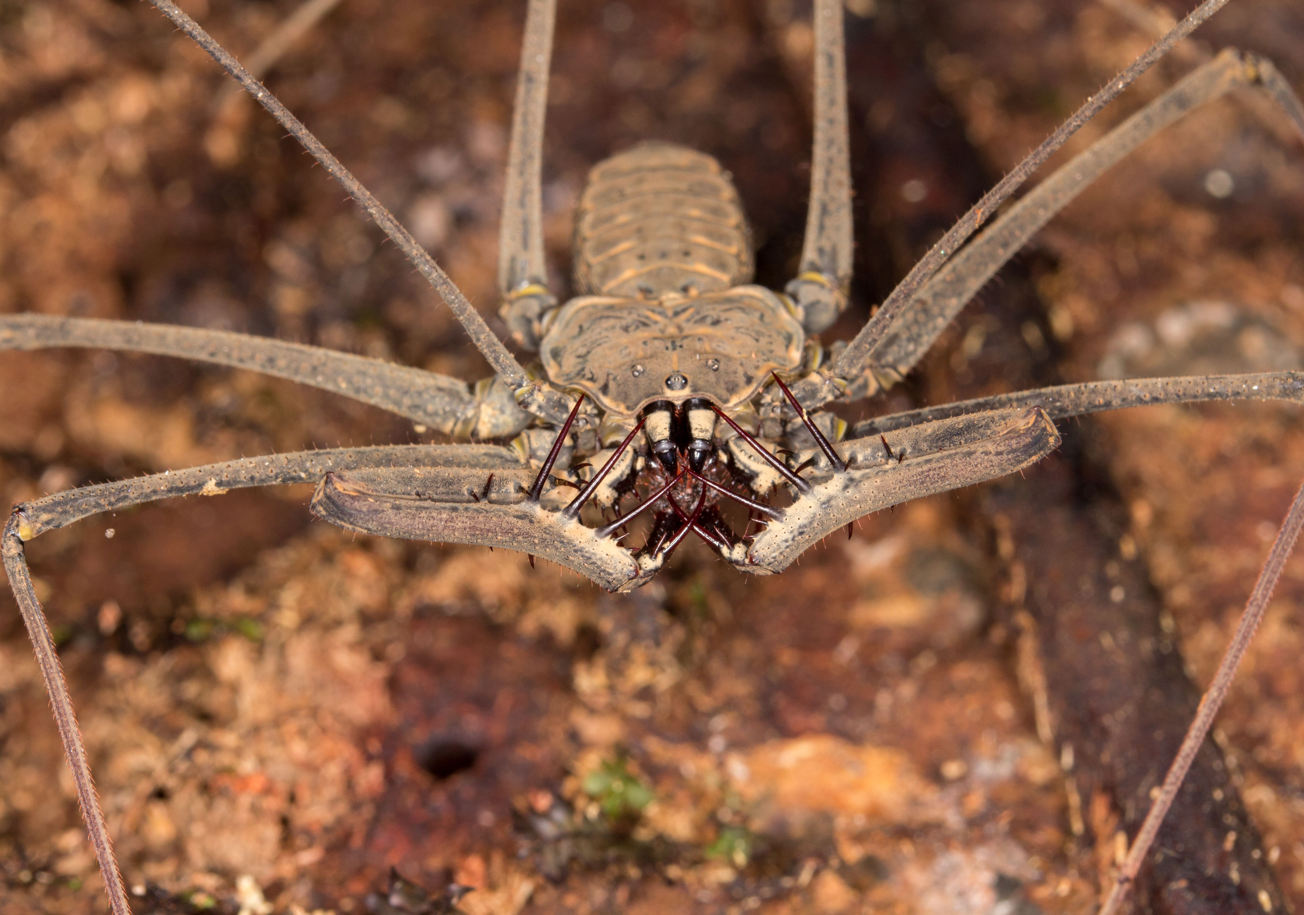 White Tailless Whip Scorpion, Ecuador